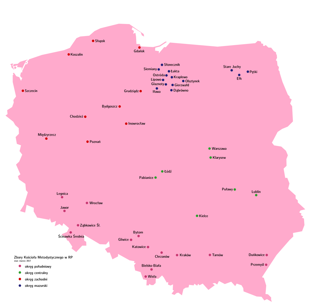 Congregations of the Methodist Church in Poland